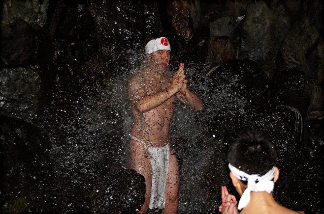 Night misogi under cold waterfall at Tsubaki Jinja in Japan. Image from . Photographer is Darren Stone (uploader) and hereby licenses this image under the GFDL.